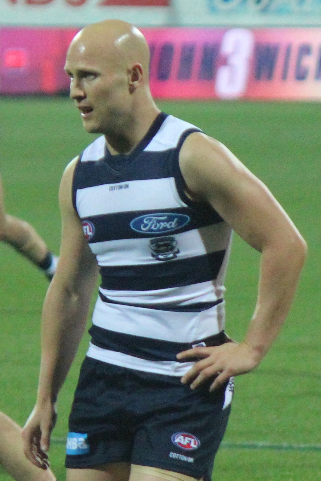 Gary Ablett with Geelong during a match against Western Bulldogs at Kardinia Park in round 9 of the 2019 AFL season.